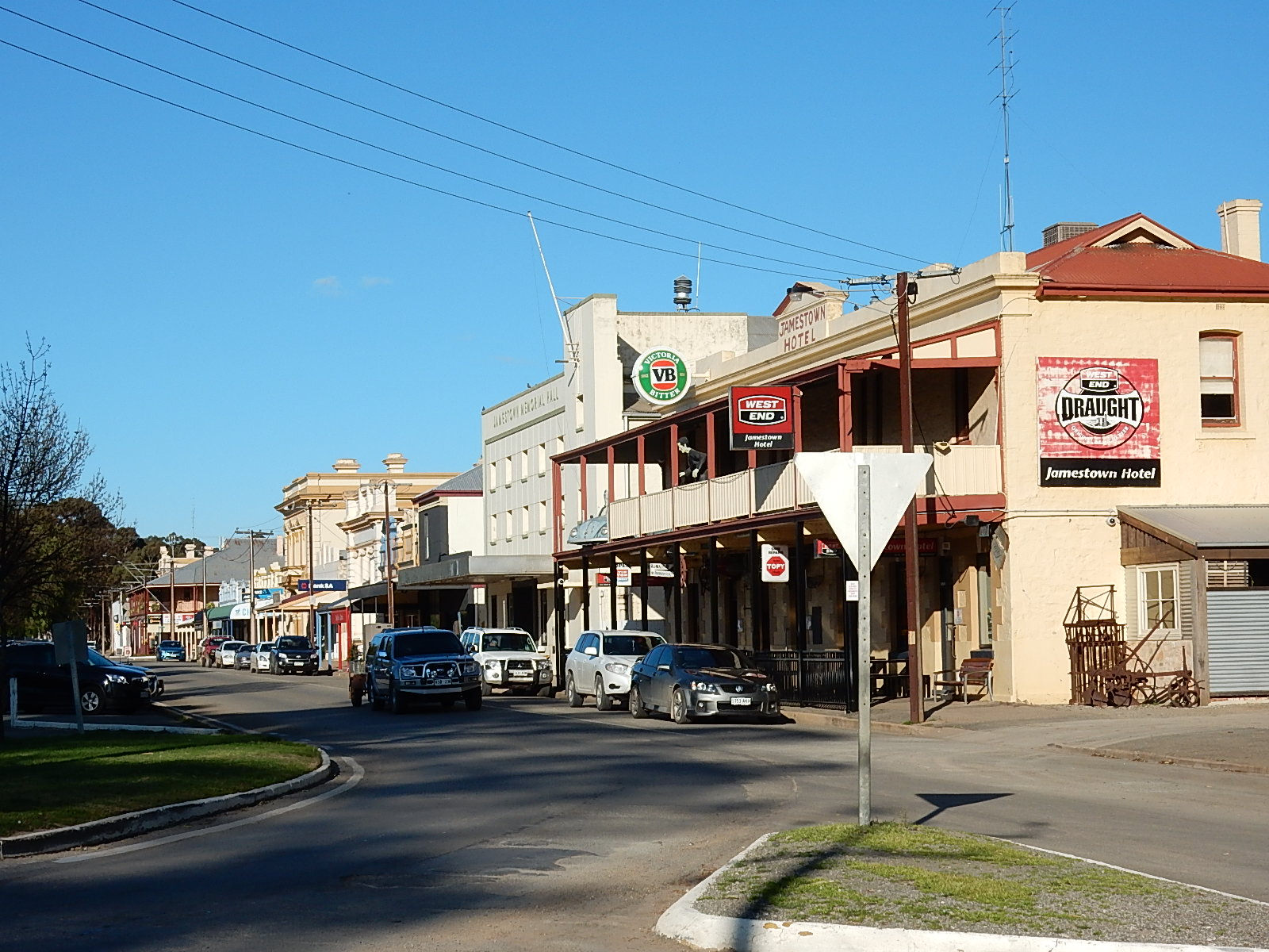 Hotel and Main Street